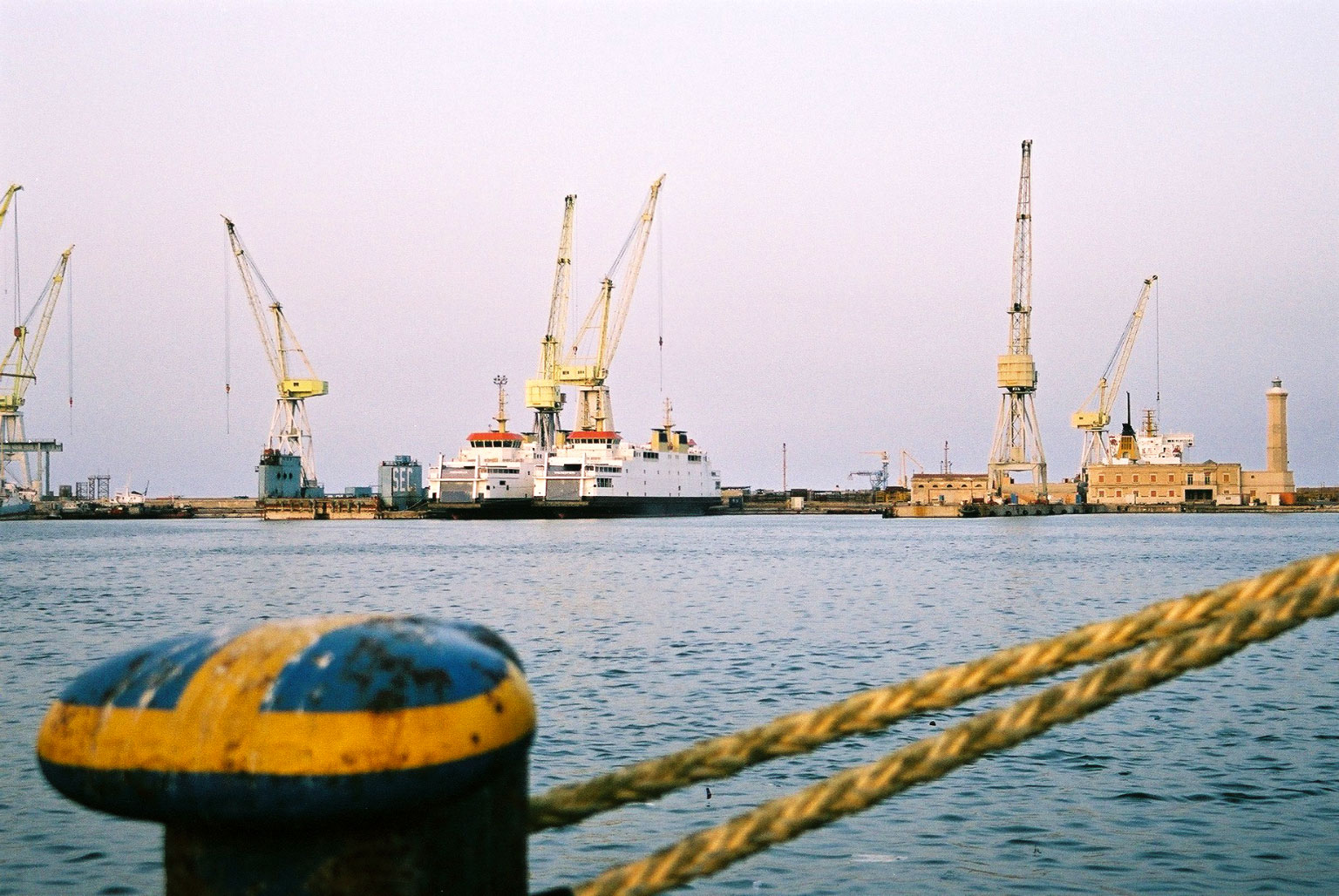 Harbour of Palermo, Dock